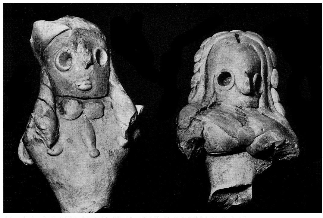 Mother goddess figures from Mundigak (left) and Deh Morasi Ghundai (right), Kandahar province, Afghanistan: Baked clay. 3rd millenium BC.